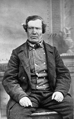 Jakob Alexander Jakobsen Wallin. Fotografi i arkivet fra Botsfengslet, Riksarkivet